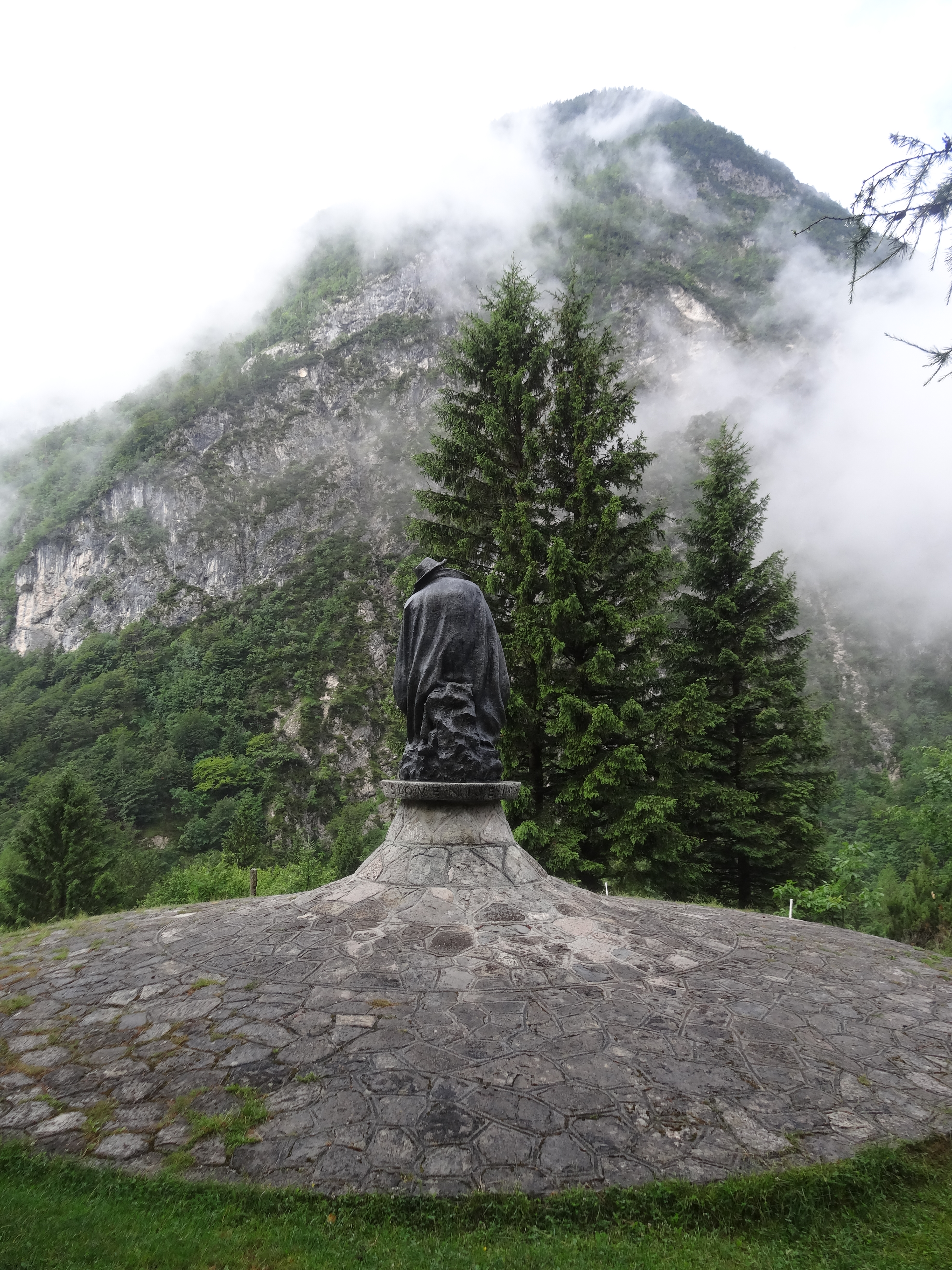 Julius Kugy monument in Slovenia